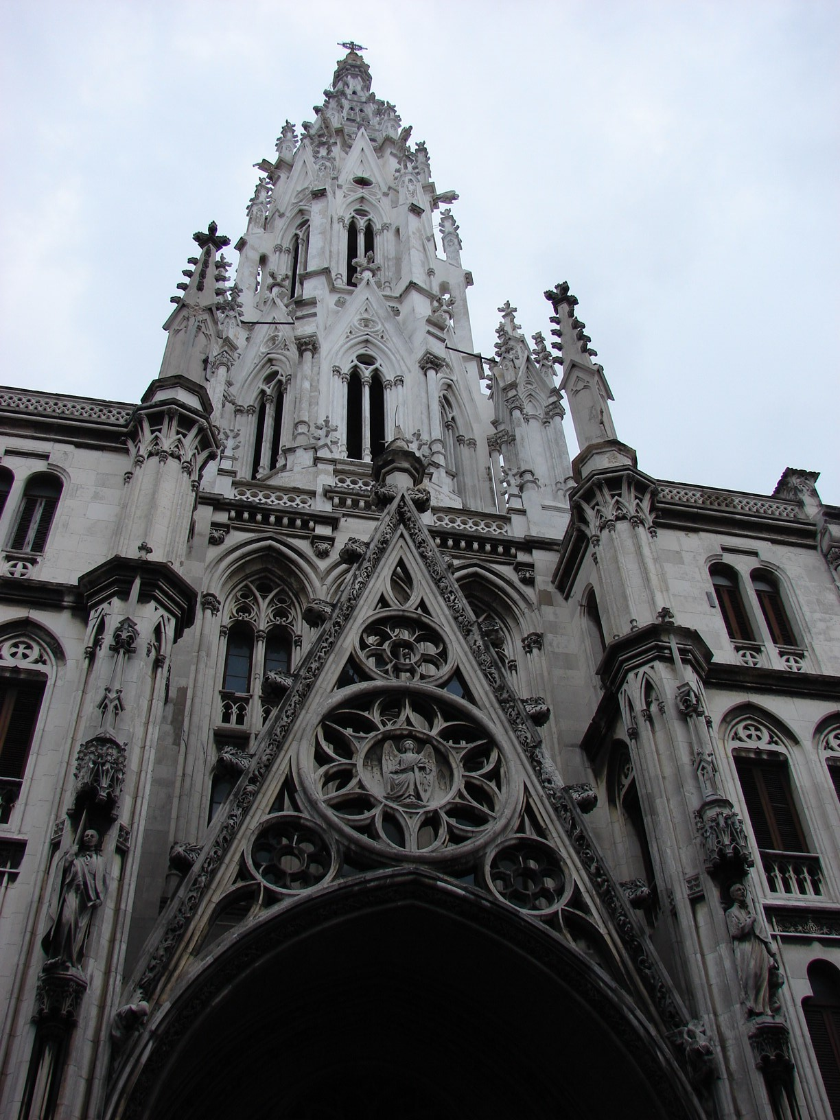 Neogothic Facade of the Sacred Heart of Jesus - Havana